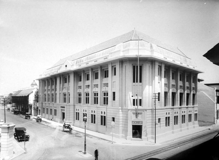 Office of the Dutch East Indies Escompto Company, Batavia